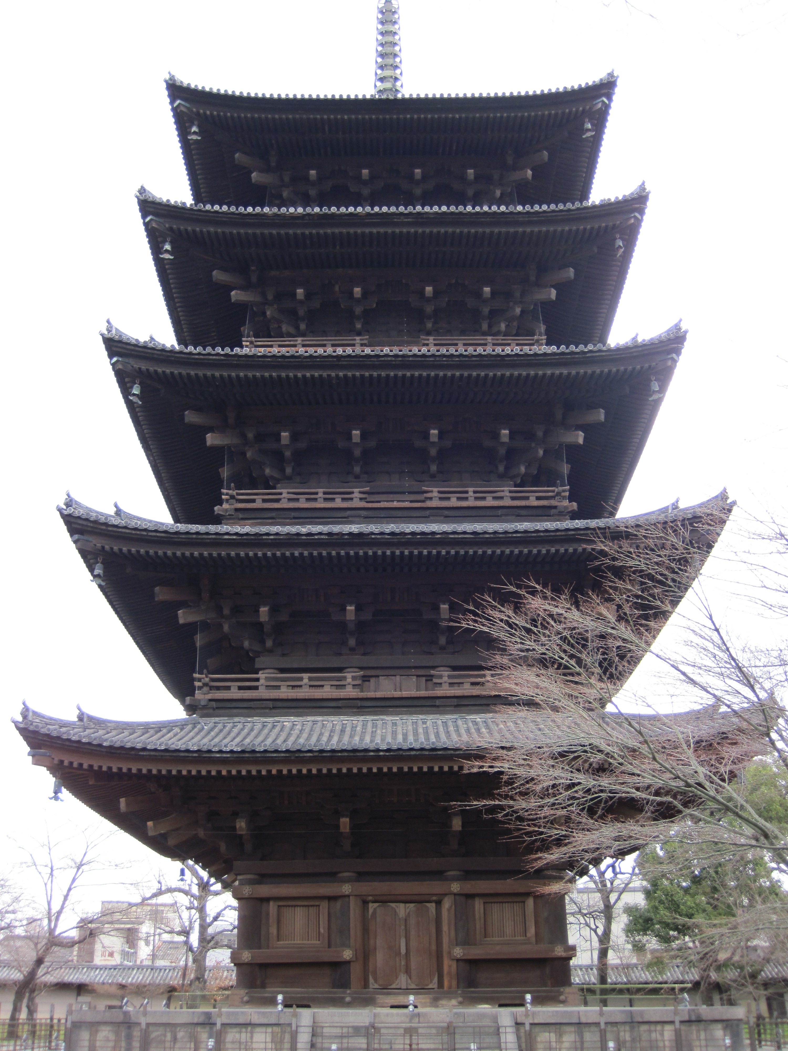 To-ji National Treasure World heritage Kyoto 国宝・世界遺産 東寺 京都